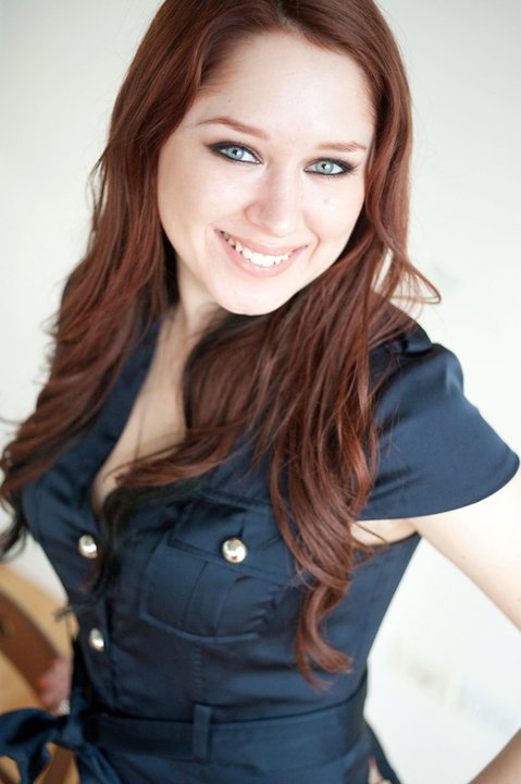 Head shot of Heather Dorff by Tanya Velazquez Photography